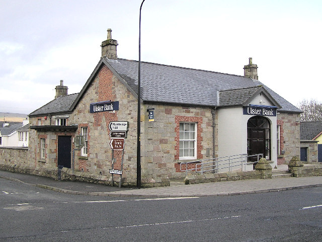 Ulster Bank, Gortin. It is located on Main Street.